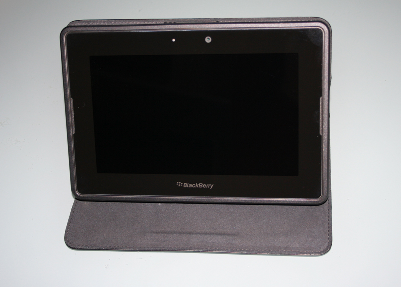 The BlackBerry PlayBook convertible case. A dual-purpose case and stand.